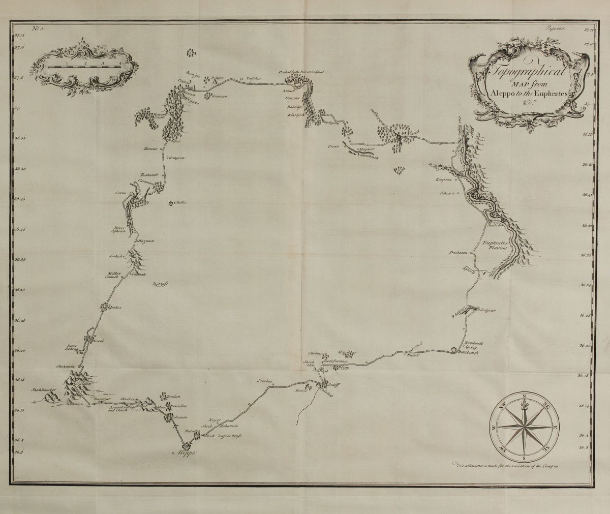 Alexander Drummond, Topographical Map from Aleppo to the Euphrates &c.a, published in 1754 in his travel report Travels through different cities of Germany, Italy, Greece and several parts of Asia. Sheet size: 47.0 x 53.5 cm